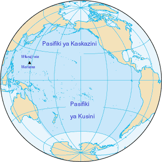 Pacific Ocean map, tagged in Swahili